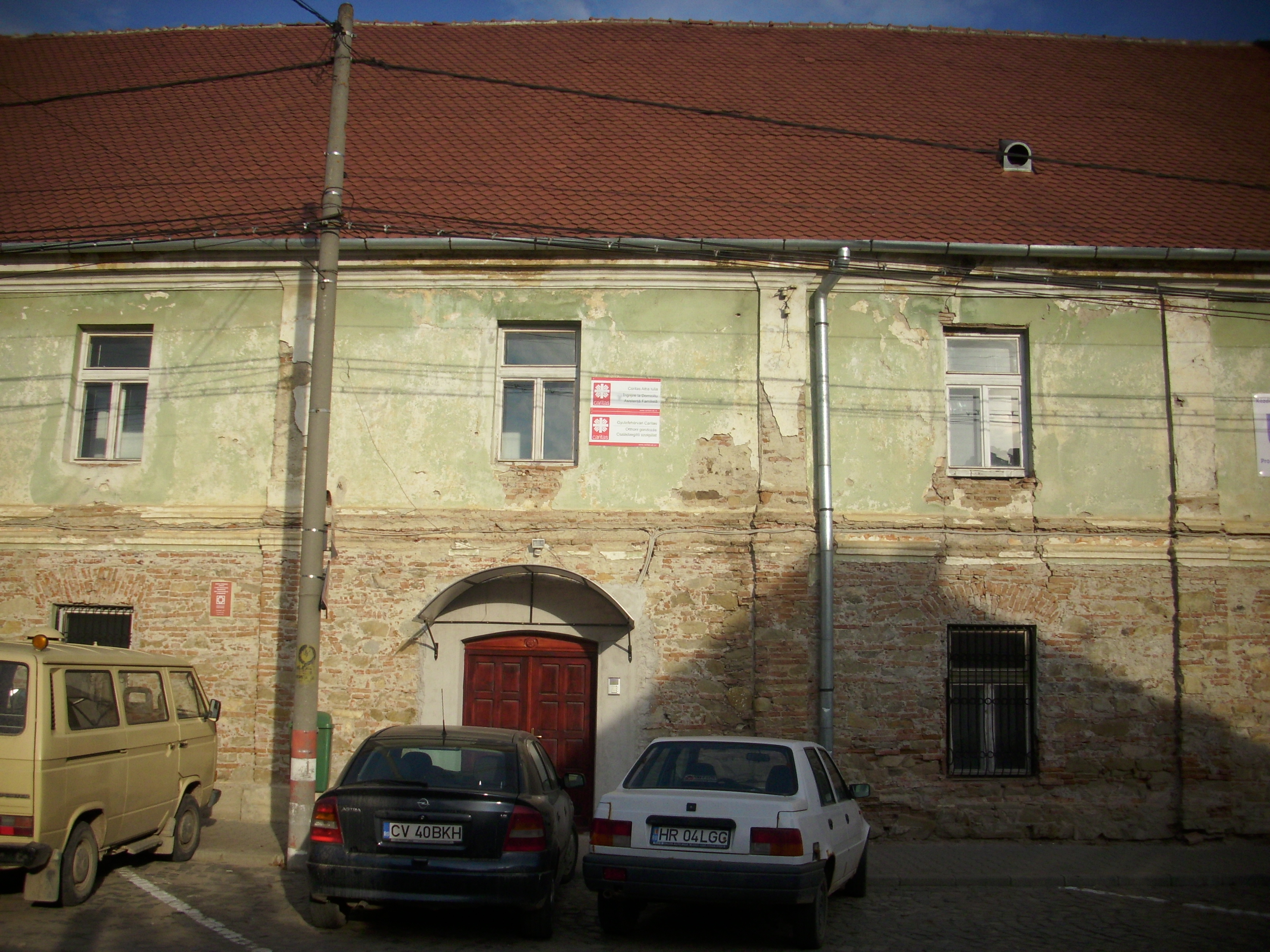 It was a gymnasium catholic in the village kanta which name is now only a street also the gymnasium is now a part of the building for social canteen. This photo made in 2013 september.